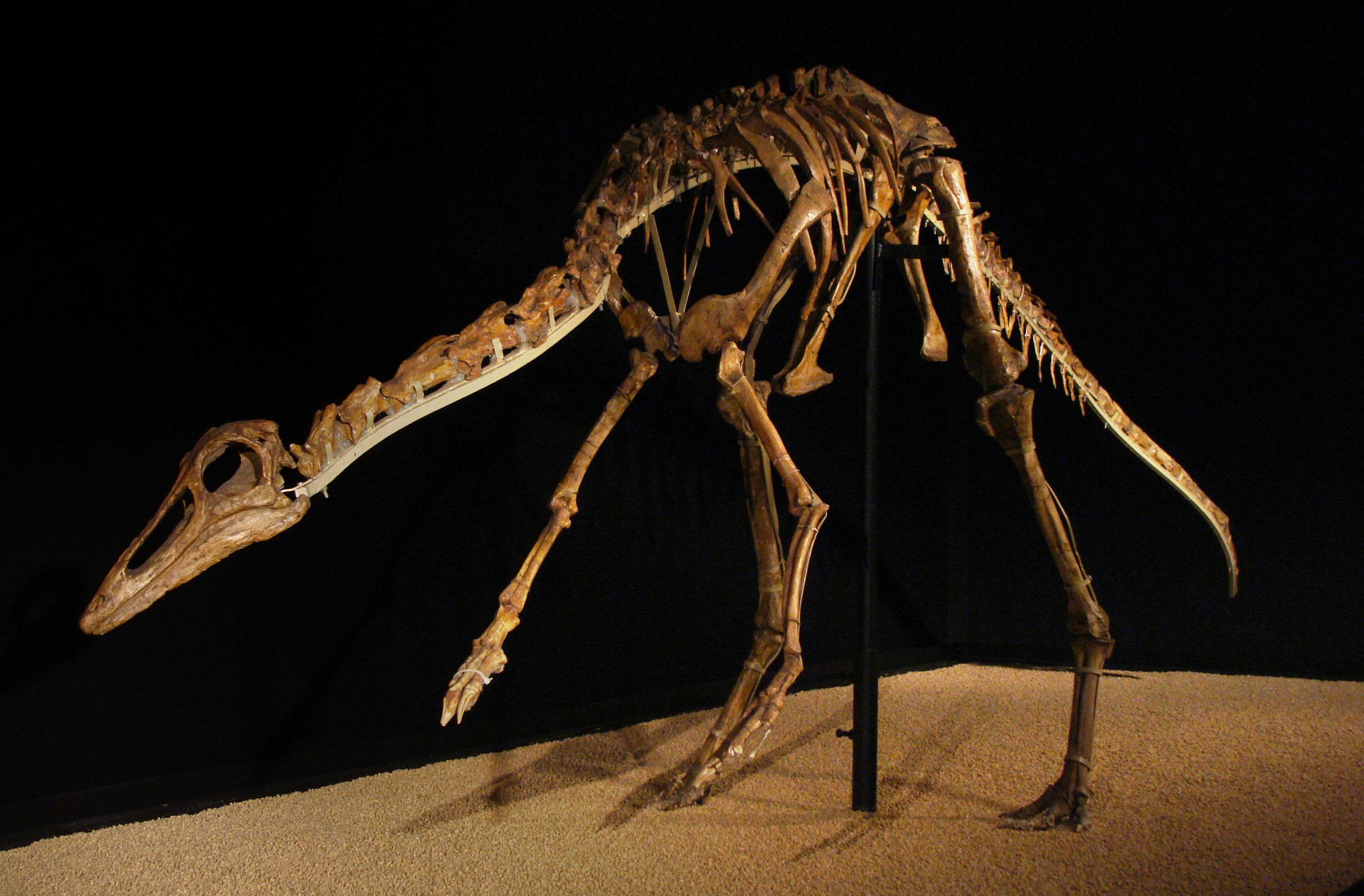 Anserimimus planinychus in the exhibition "Dinosaures. Tresors del desert de Gobi" ("Dinosaurs. Treasures of Gobi Desert") in CosmoCaixa, Barcelona.